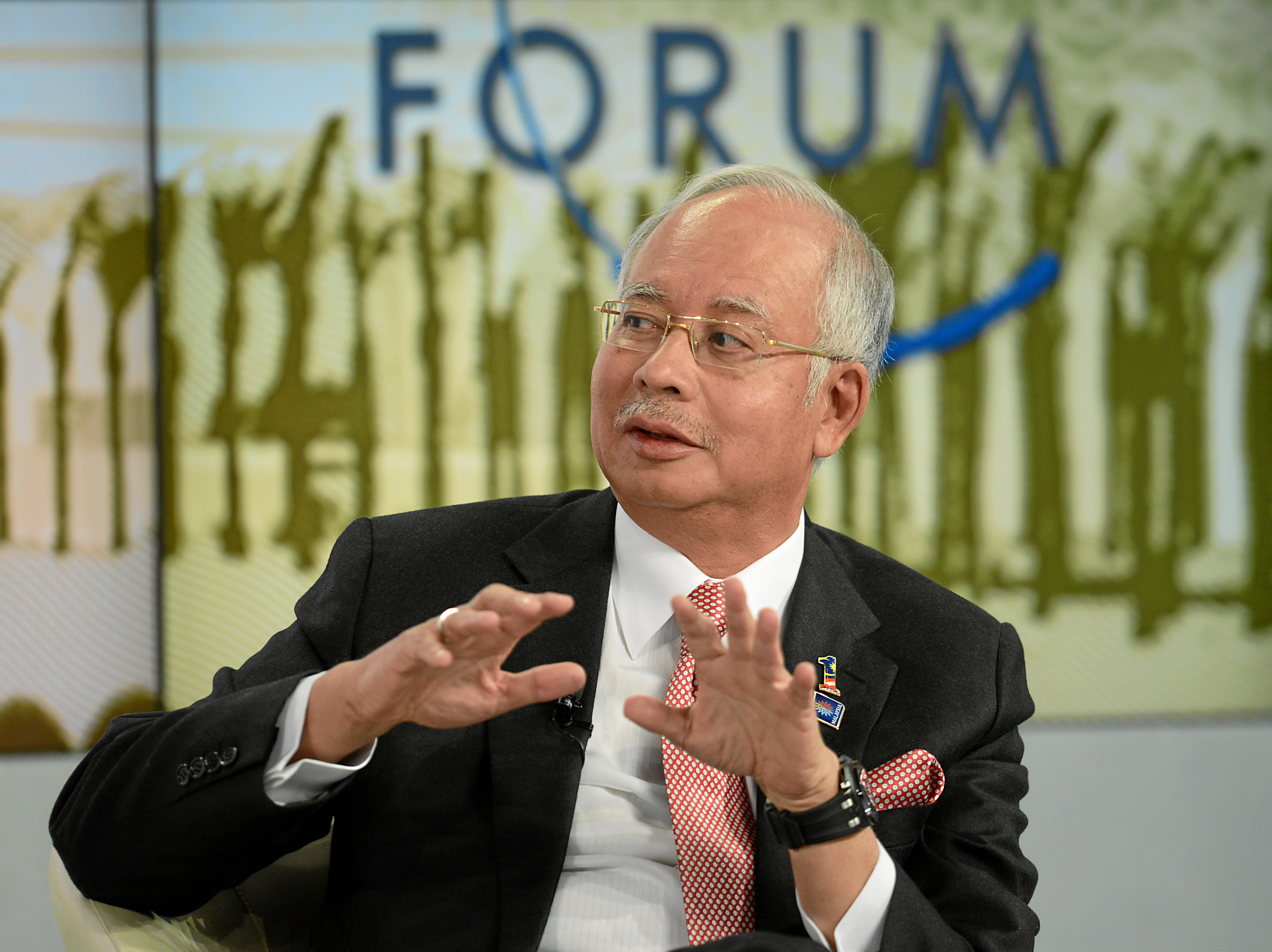 DAVOS/SWITZERLAND, 25JAN13 - Mohd Najib Bin Tun Abdul Razak, Prime Minister and Minister of Finance of Malaysia discusses during the session 'The Economic Malaise and Its Perils' at the Annual Meeting 2013 of the World Economic Forum in Davos, Switzerland, January 25, 2013. Copyright by World Economic Forum Michael Wuertenberg